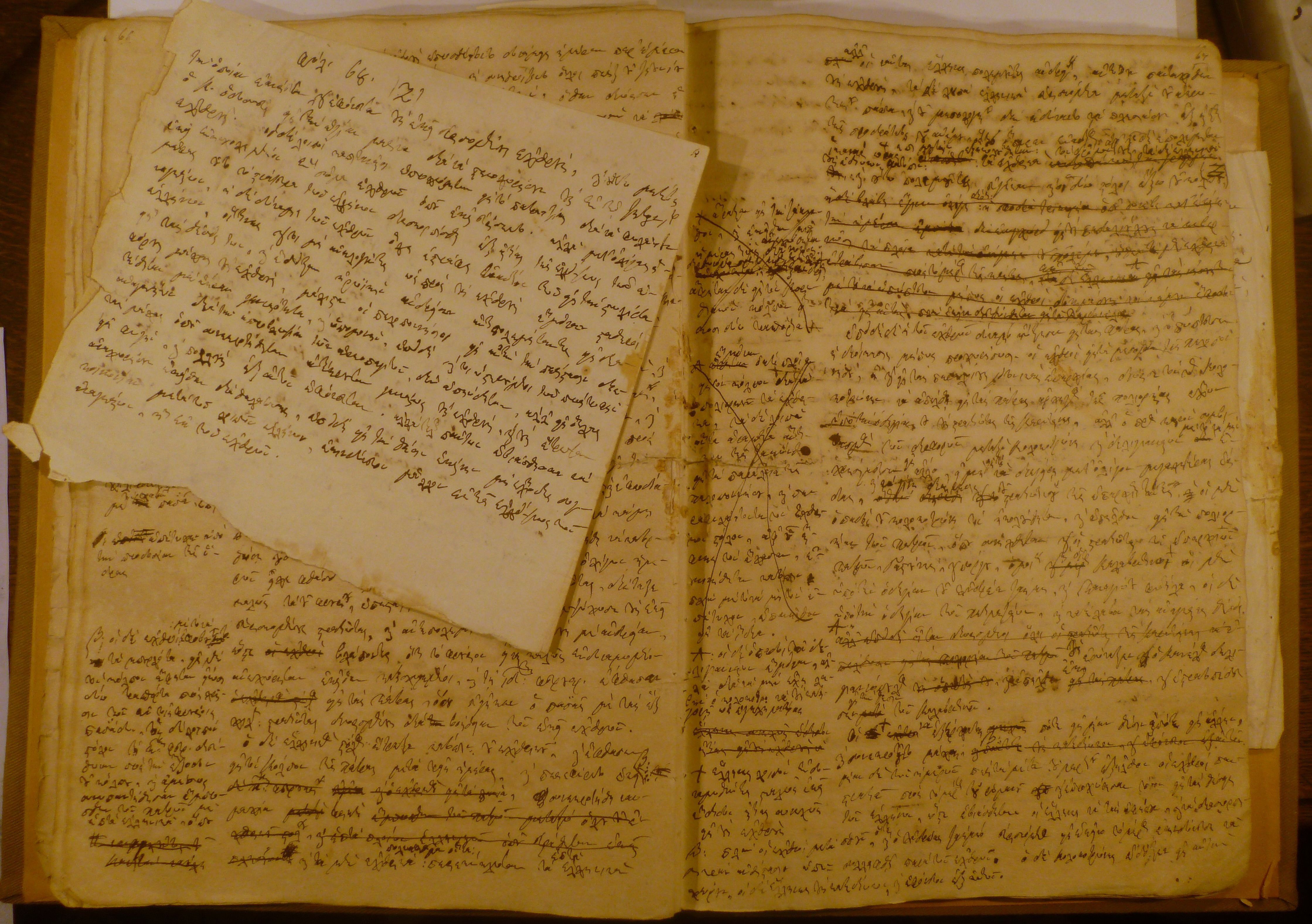 Pages 66, 67 of the manuscript of bishop Germanos III of Patras (1771–1827). National Library of Athens.